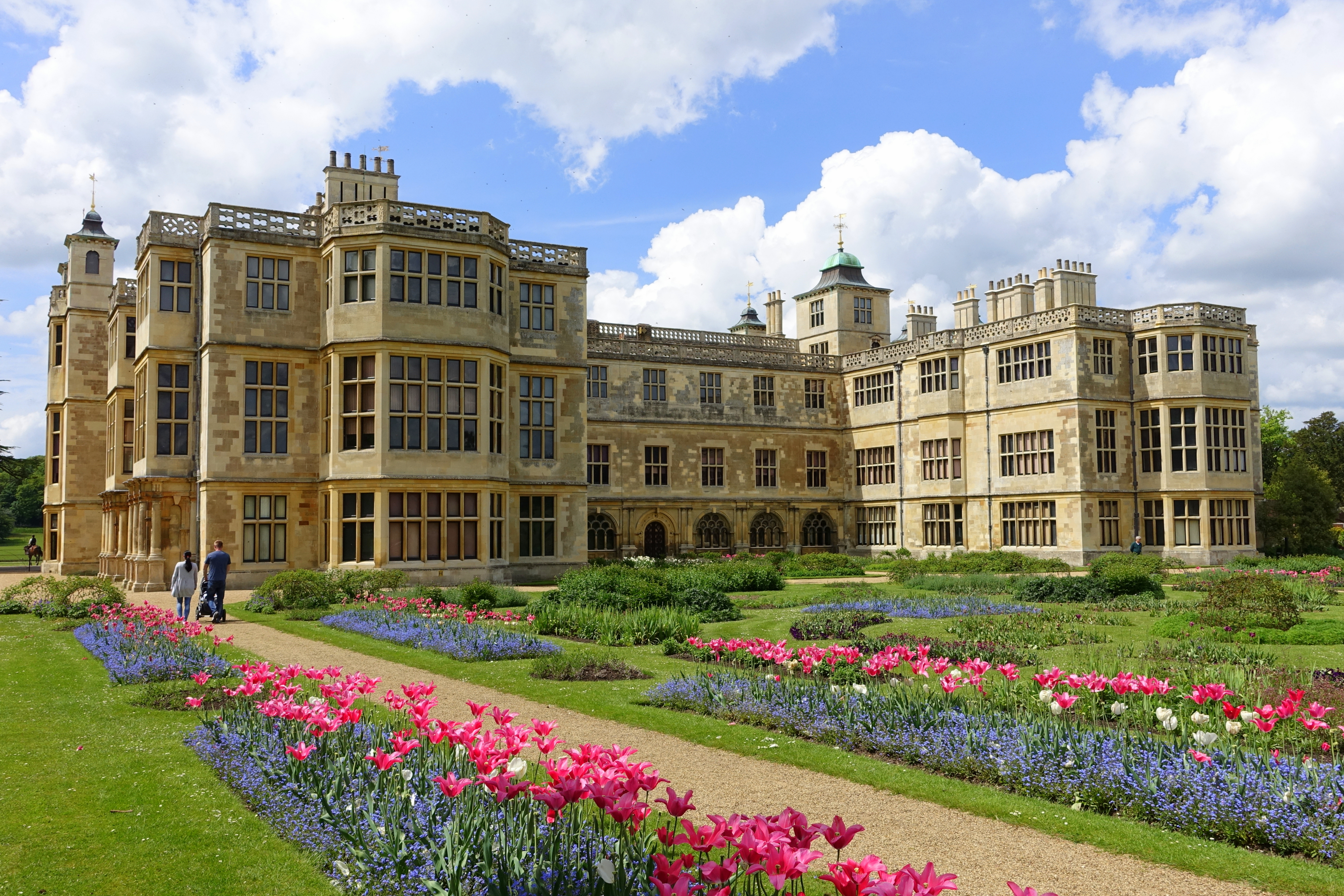 Audley End House - Essex, England.